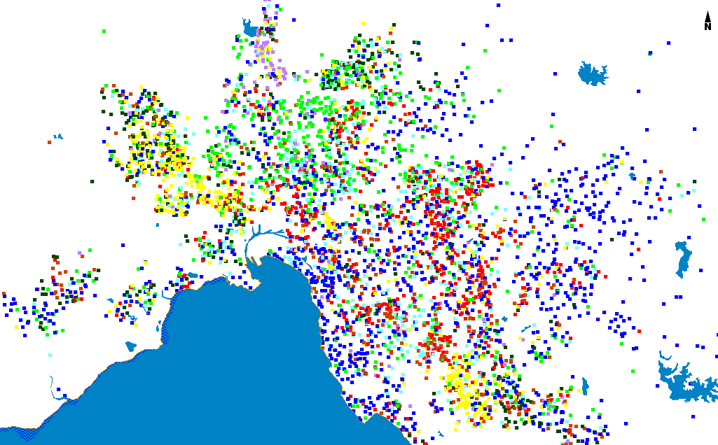 Demographic map of Melbourne. Each dot indicates 100 persons born in Britain (dark blue), Greece (light blue), China (red), India (brown), Vietnam (yellow), Turkey (purple), Italy (light green) and (former states of) Yugoslavia (dark green). Based on 2006 Census data